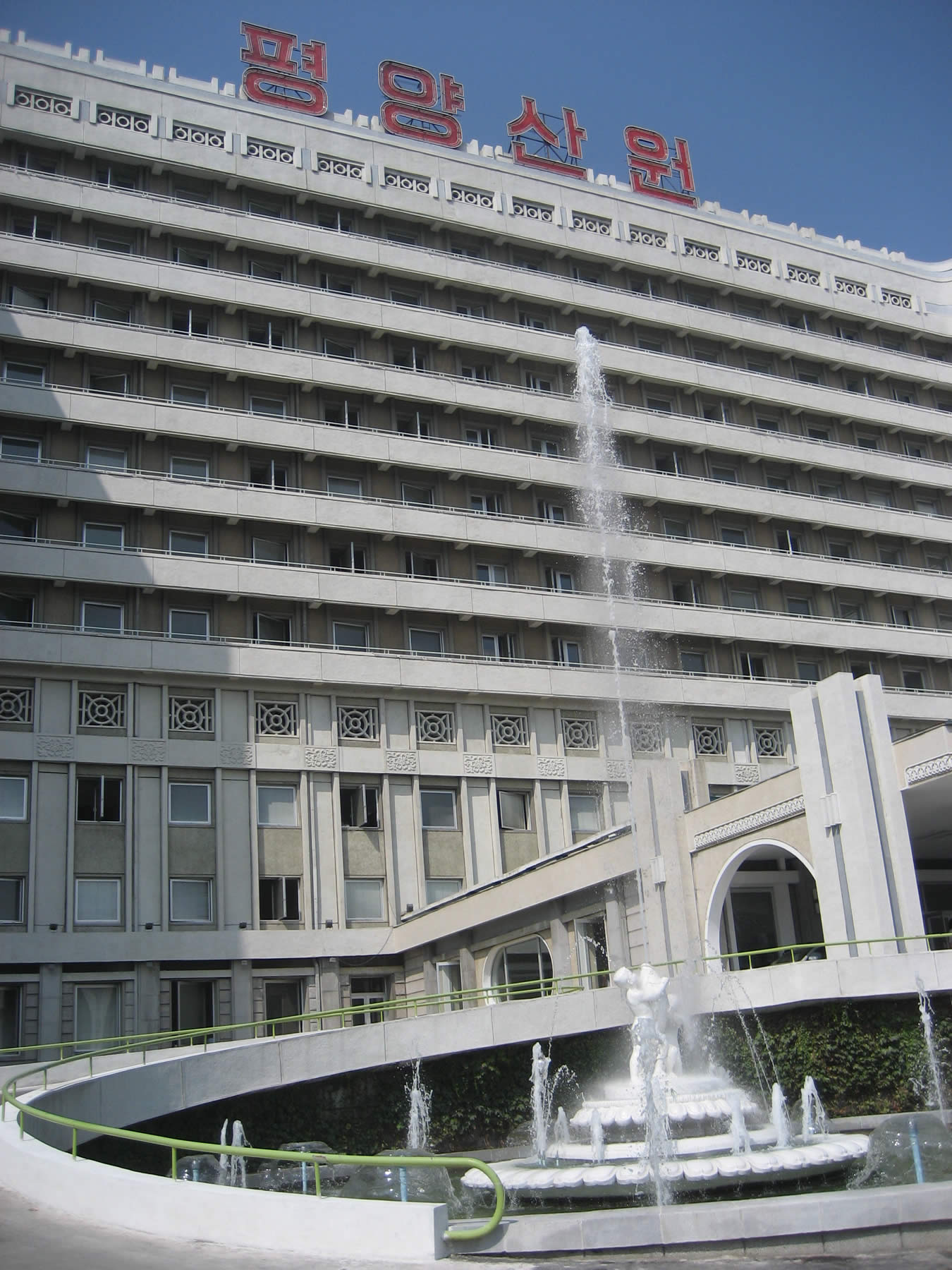 The Pyongyang Maternity Hospital is a state of the art medical facility.